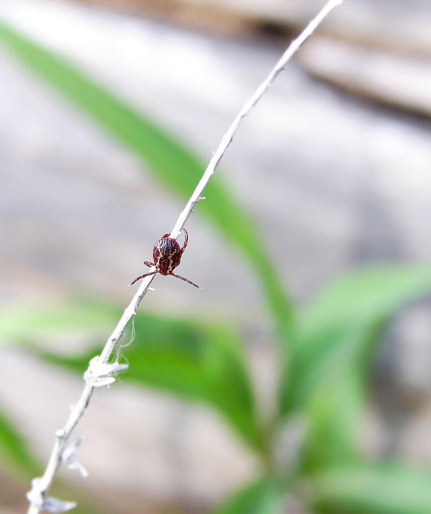 I hate these guys. (S)he is just waiting for me to walk a little closer in order to grab on to me and suck my blood. View large to see the funky little things at the ends of her front legs, which I assume aid in grabbing onto animals. Does anyone know what species of wood/dog tick is found in North Dakota? This is obviously a Dermacentor species, but I can't tell if it's Dermacentor andersoni or Dermacentor variabilis which look very similar, and I don't know which one's found here. Also, I've seen photos of males compared to females, but they never show ones that look quite like this. I'm pretty sure it's a female though.